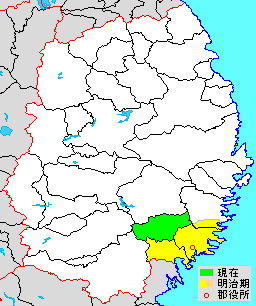 Map of Waga District, Iwate, Japan